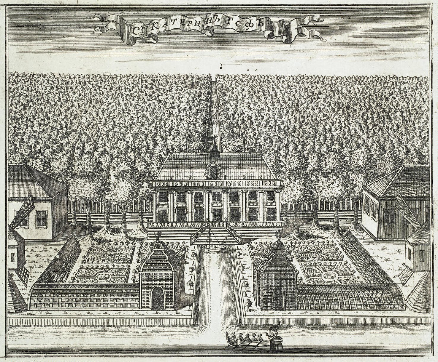 Alexei Ivanovich Rostovtsev. View of Catherinehof, Etching with line engraving, 16.5x20 cm, 1716.